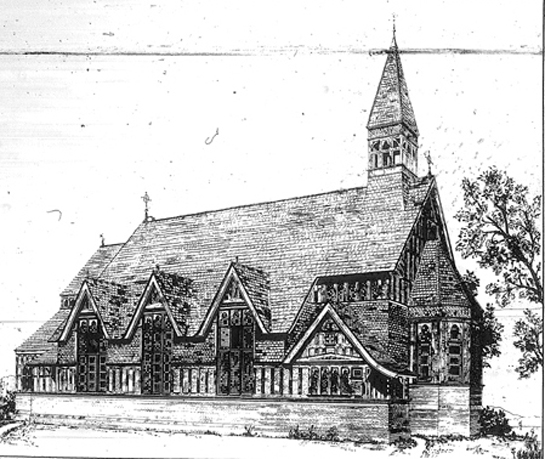 Digital duplicate of historic drawings for Christ Church, Oyster Bay, New York.